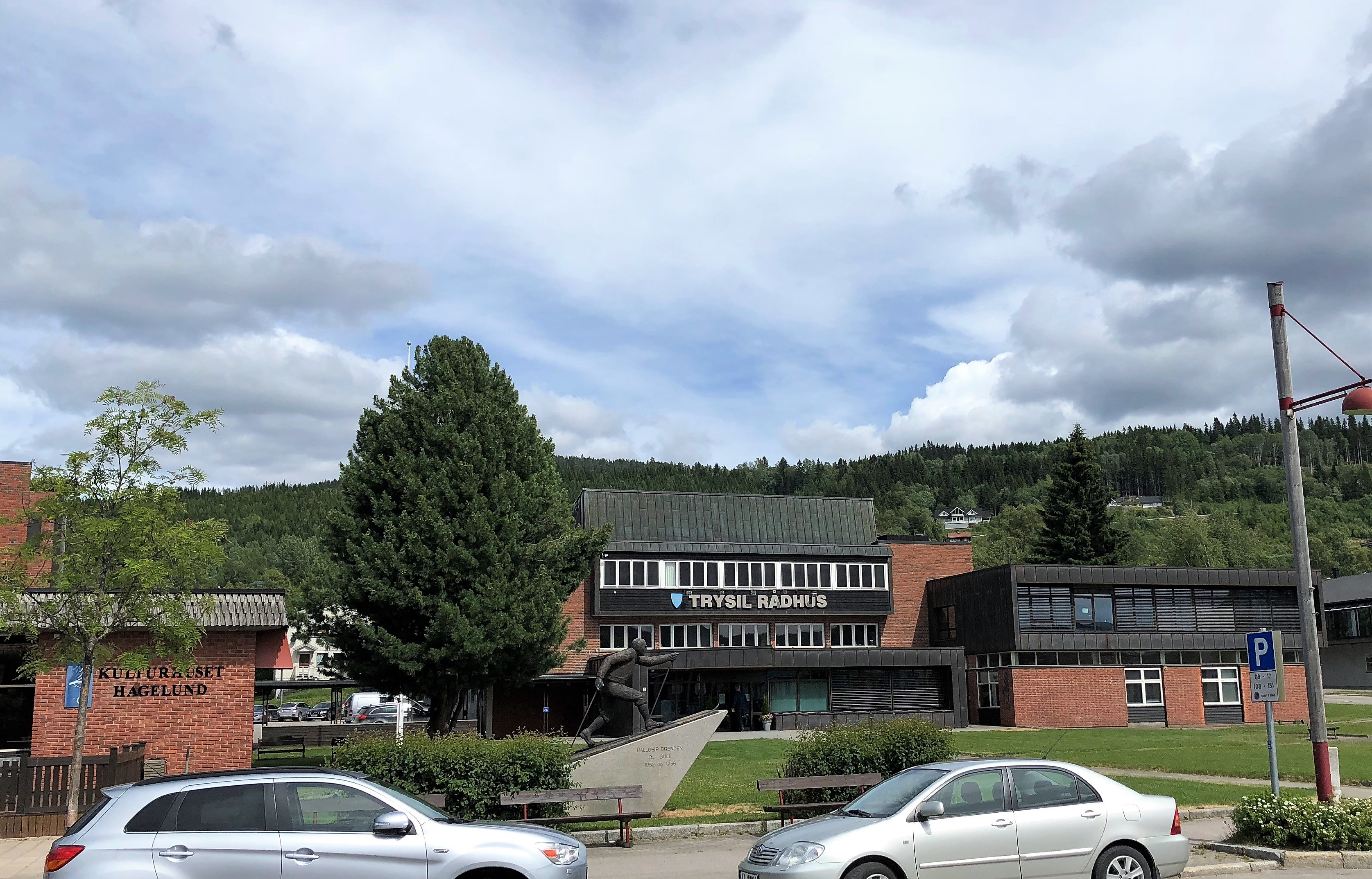 Town hall (centre) and culture house Hagelund (left) in Innbygda, Trysil municipality, Norway. Statue of cross country skier Hallgeir Brenden in front of the town hall